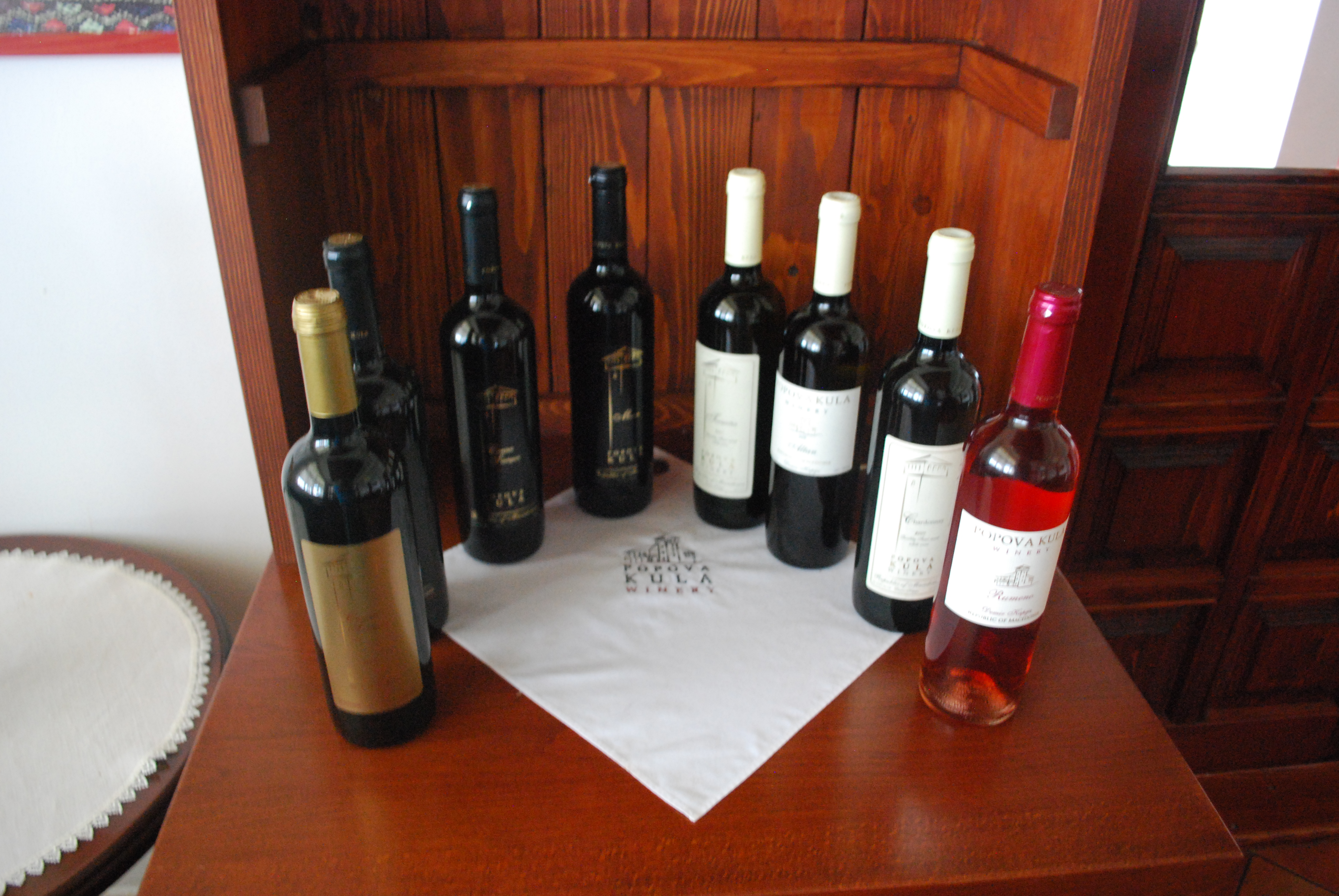 Popova Kula - Winery, Restaurant and Hotel in Demir Kapija, Macedonia